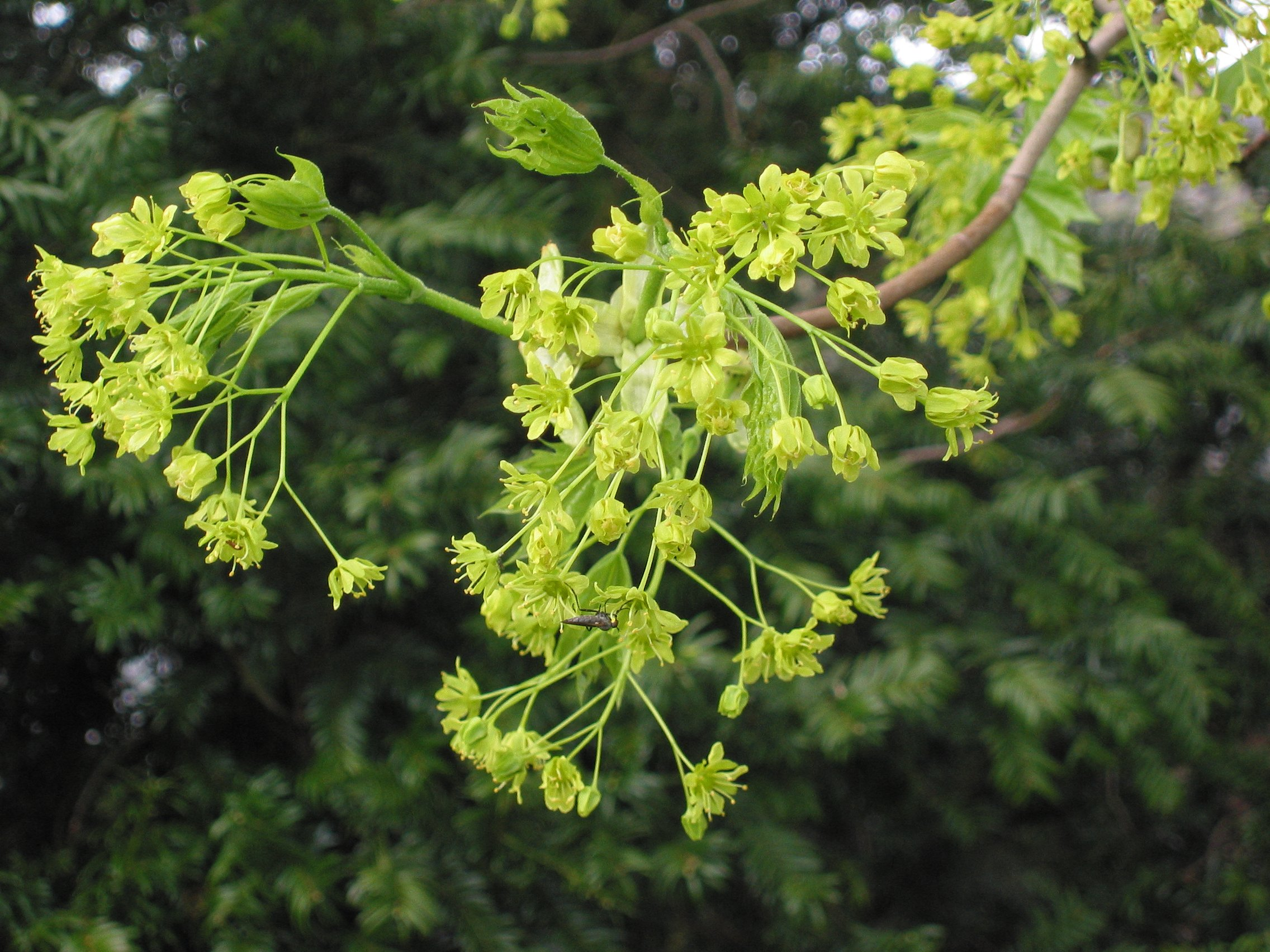 Acer platanoides inflorescens